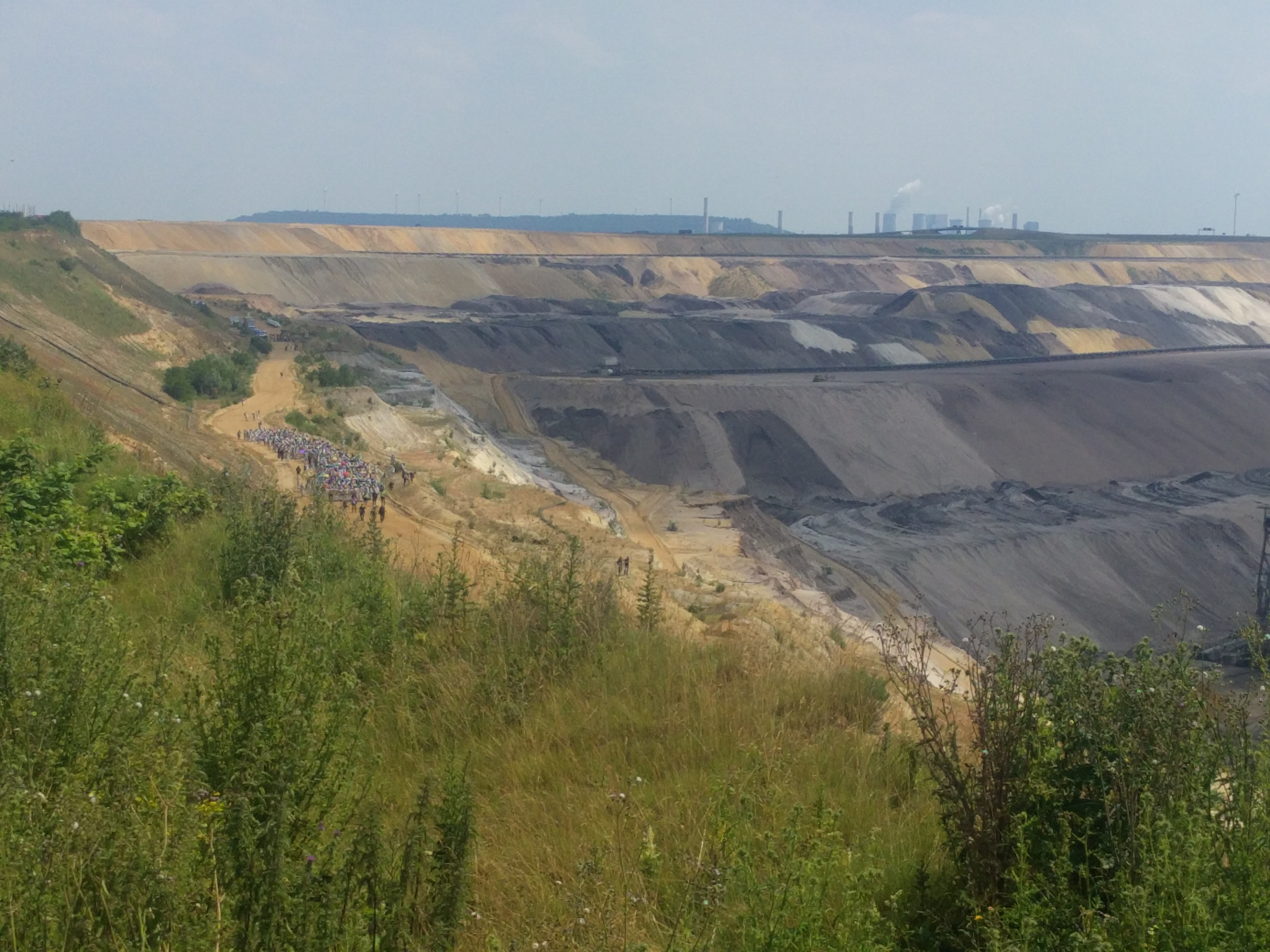 Group of protesters entering the open cast mine Garzweiler.